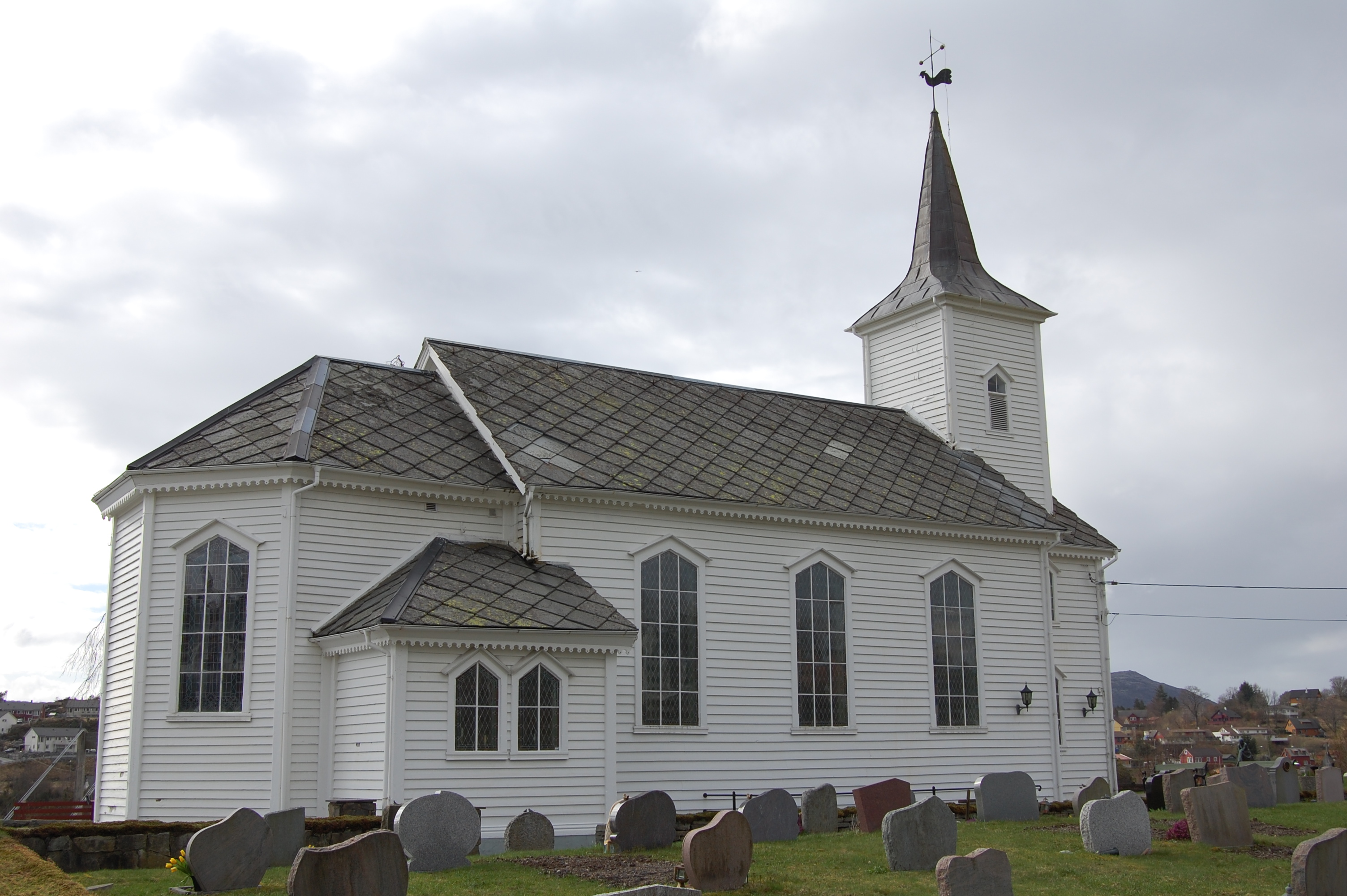 Alversund church seen from east